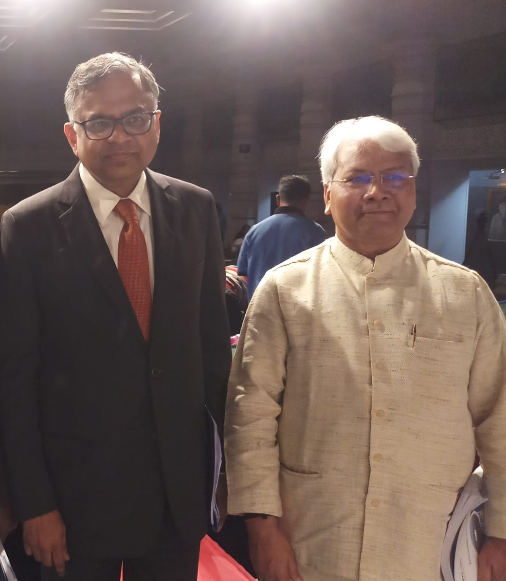 Rakeshwar Pandey with N Charashekhar, Group Chairman, Tata Sons